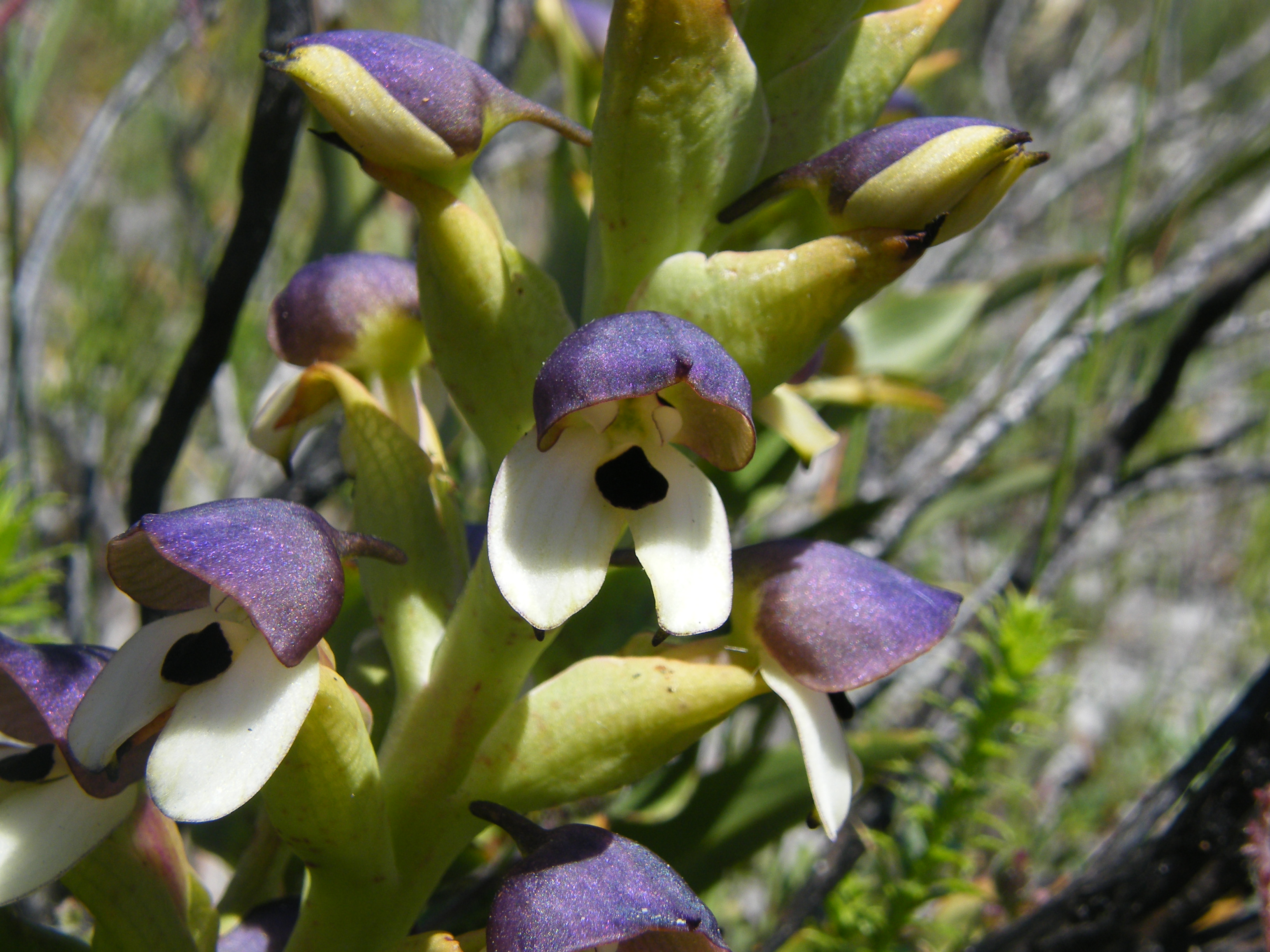 Golden orchid